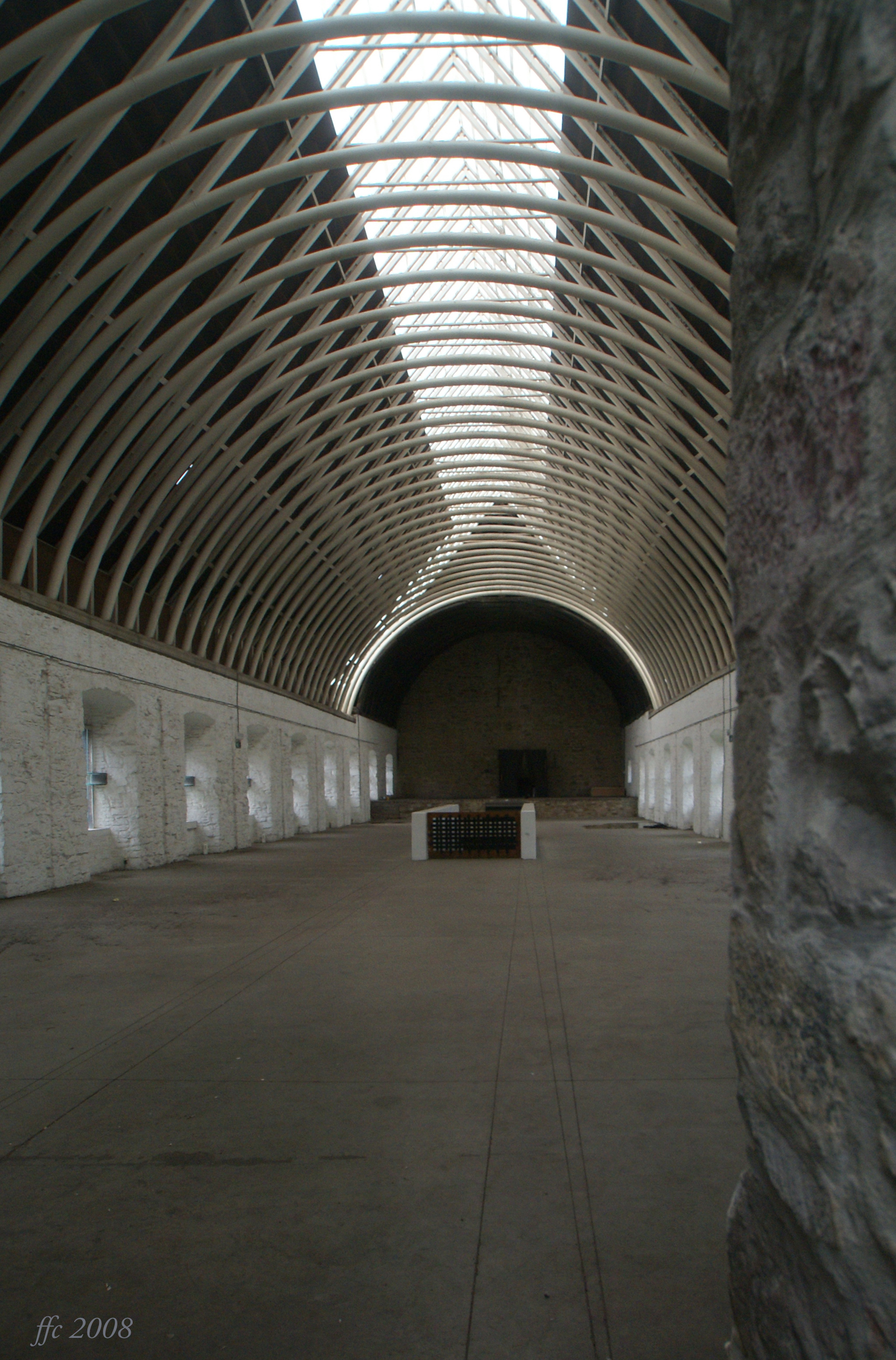 Val-Saint-Lambert (Seraing) Belgium, dormitory (interior)